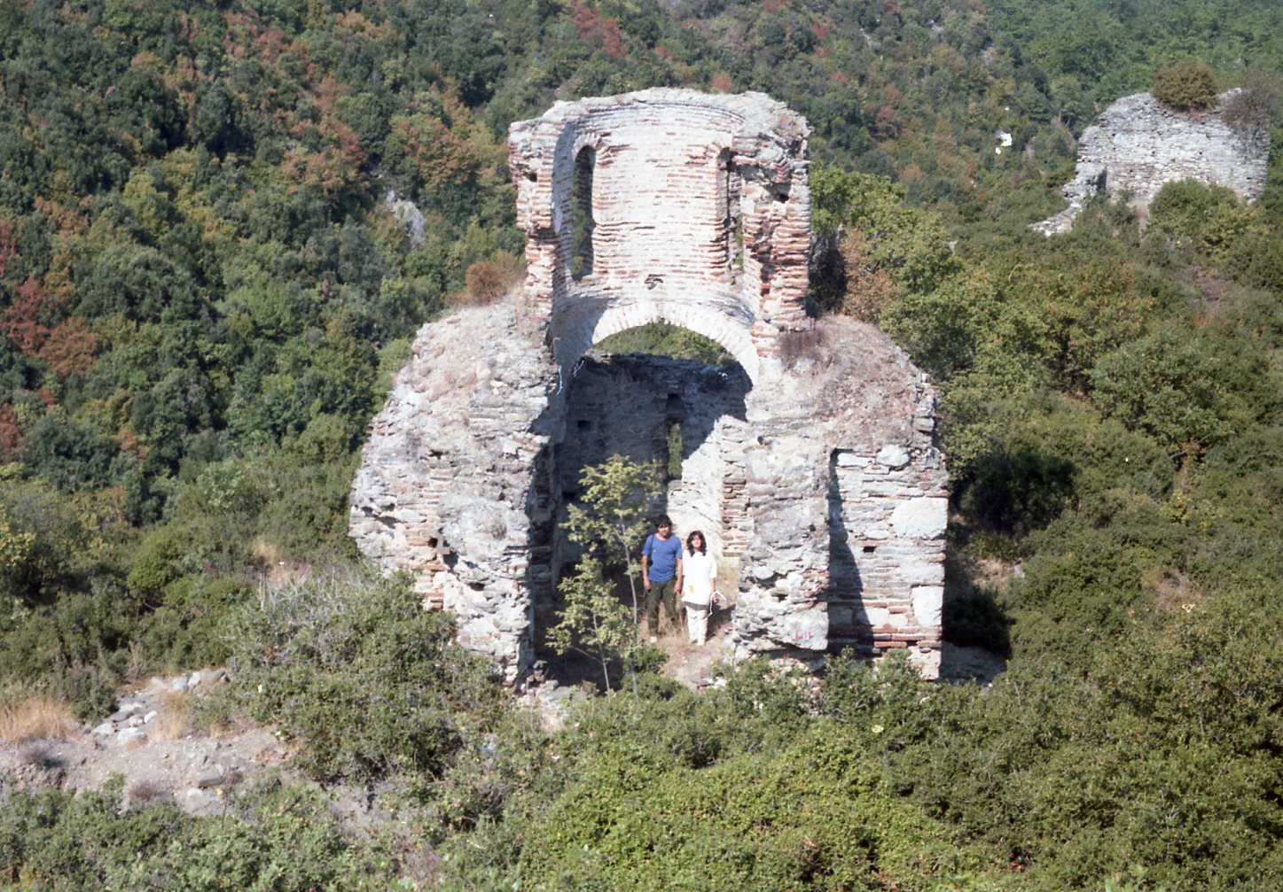 This is a photography of Natura 2000 protected area with ID GR1220009